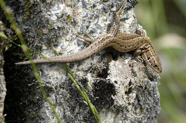 Zootoca vivipara adult, from Commanster, Belgian High Ardennes (50°15'20``N,5°59'58``E)